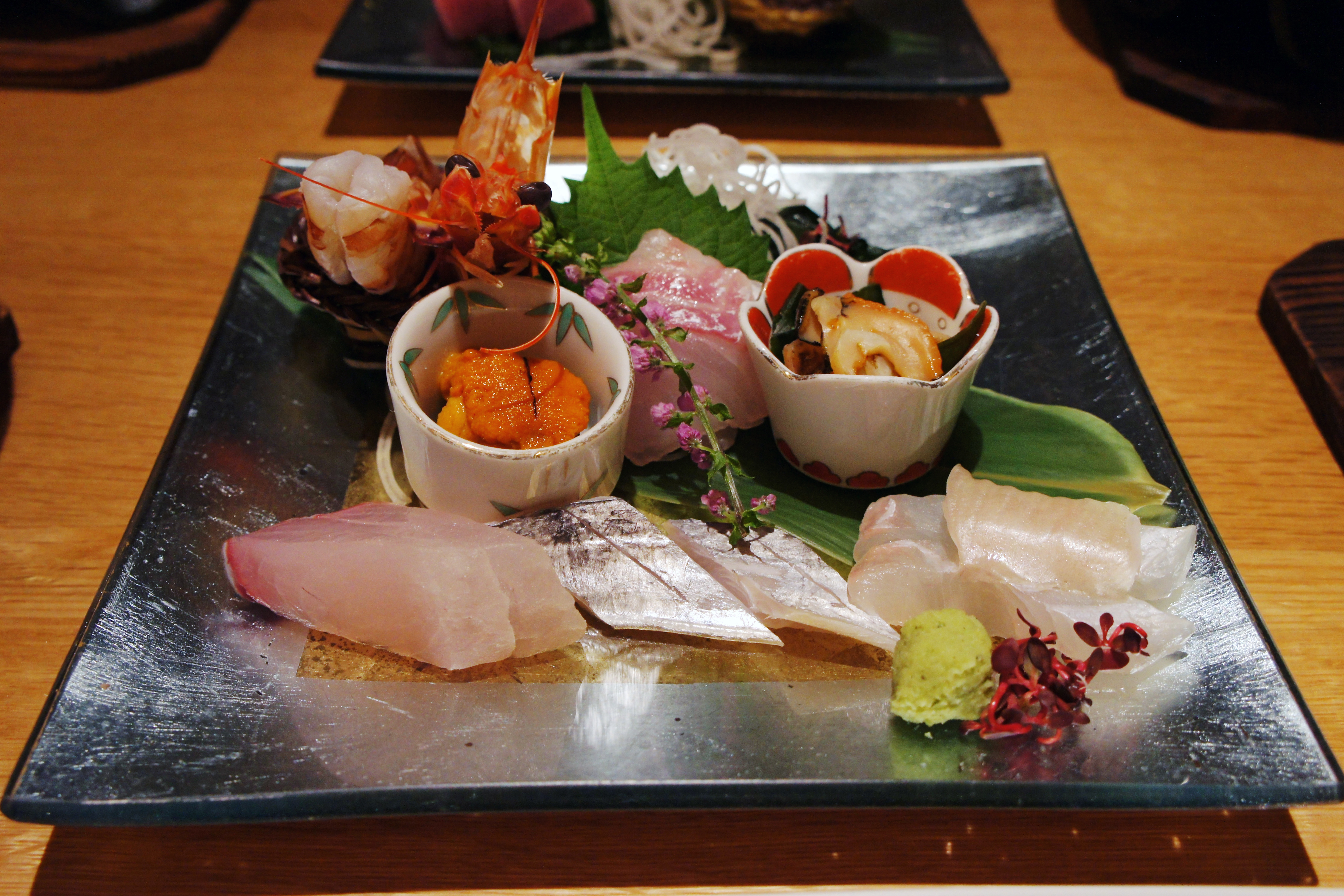 Kotohira-kadan in Kotohira, Kagawa prefecture, Japan.